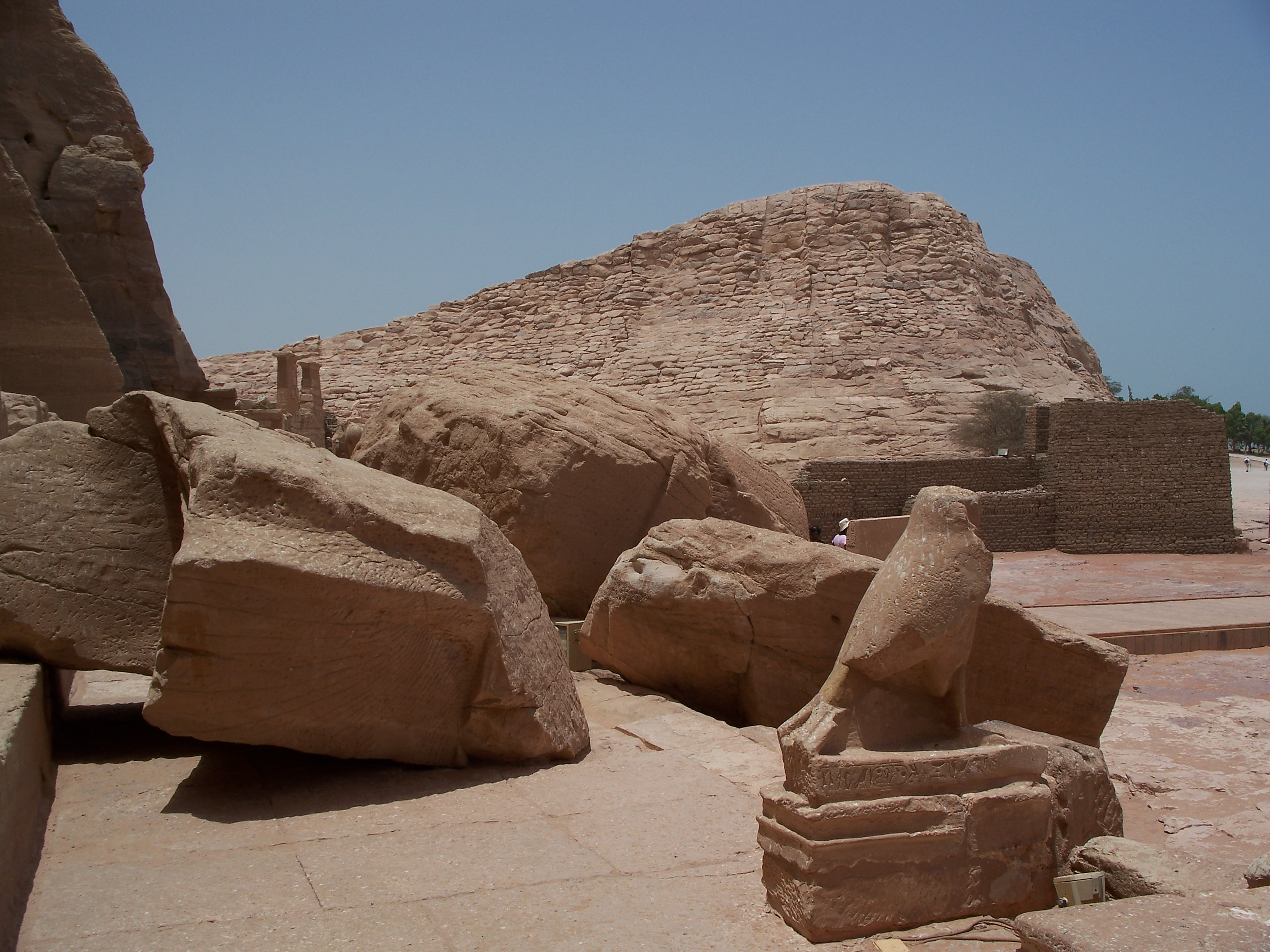 Collapsed Ramesses II Colossus at Abu Simbel Greater Temple. Taken by myself. May 30, 2007